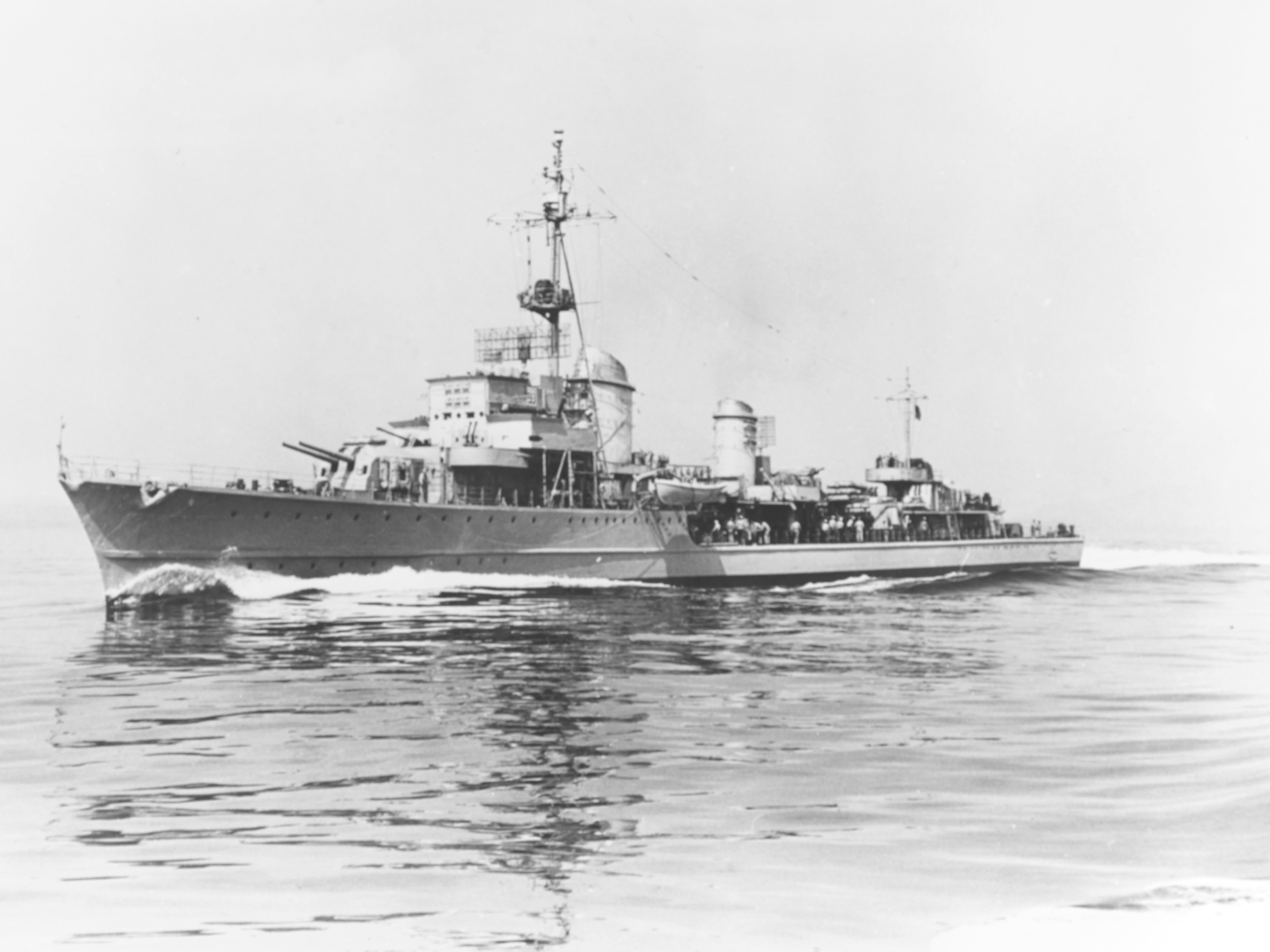 The former German destroyer Z 39 underway off Boston, Massachusetts (USA), on 22 August 1945. The U.S. Navy designated the destoyer DD-939.